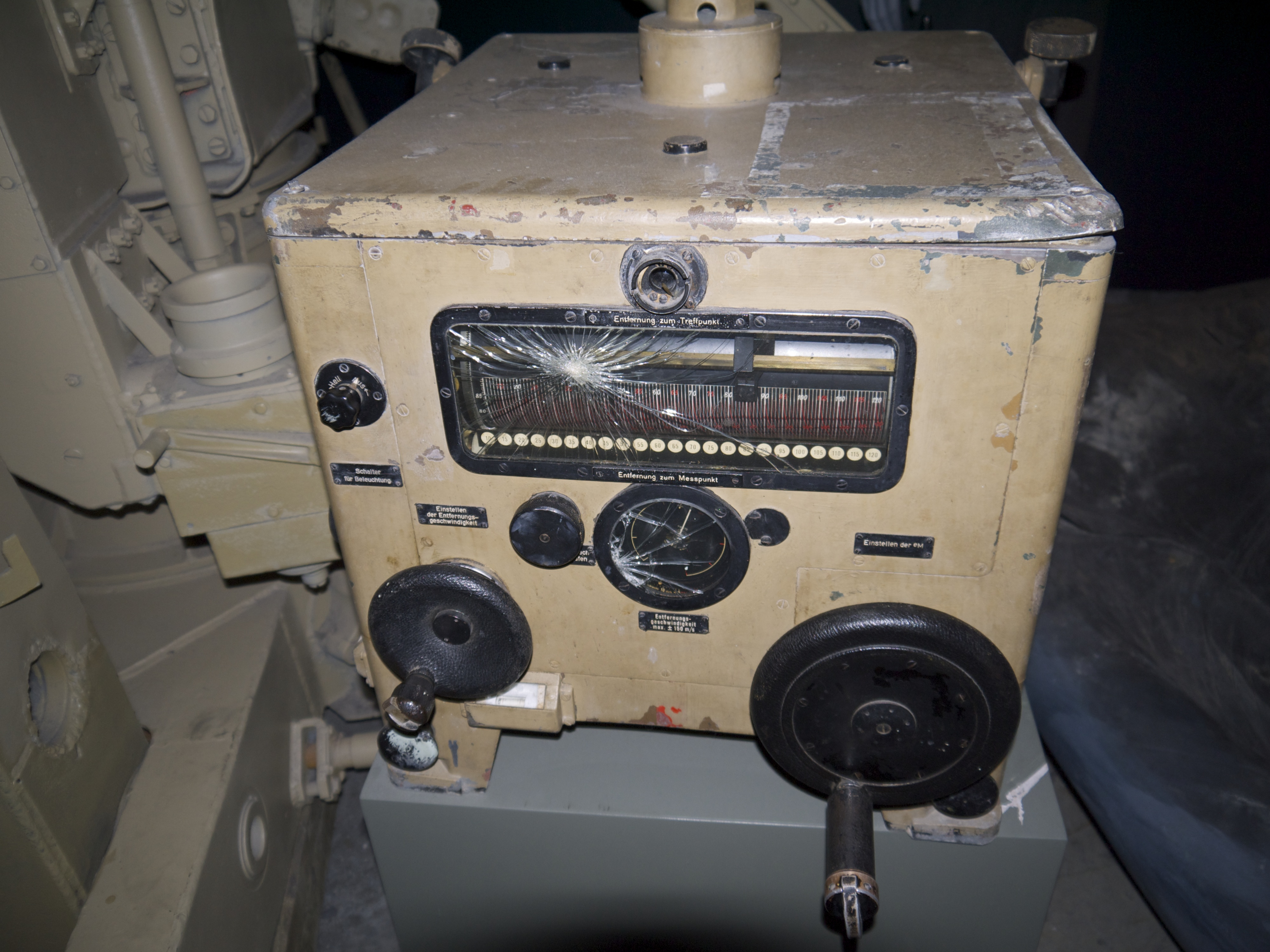 Kommandohilfsgerät 35 fire control computer for 88 mm gun. Canadian War Museum.